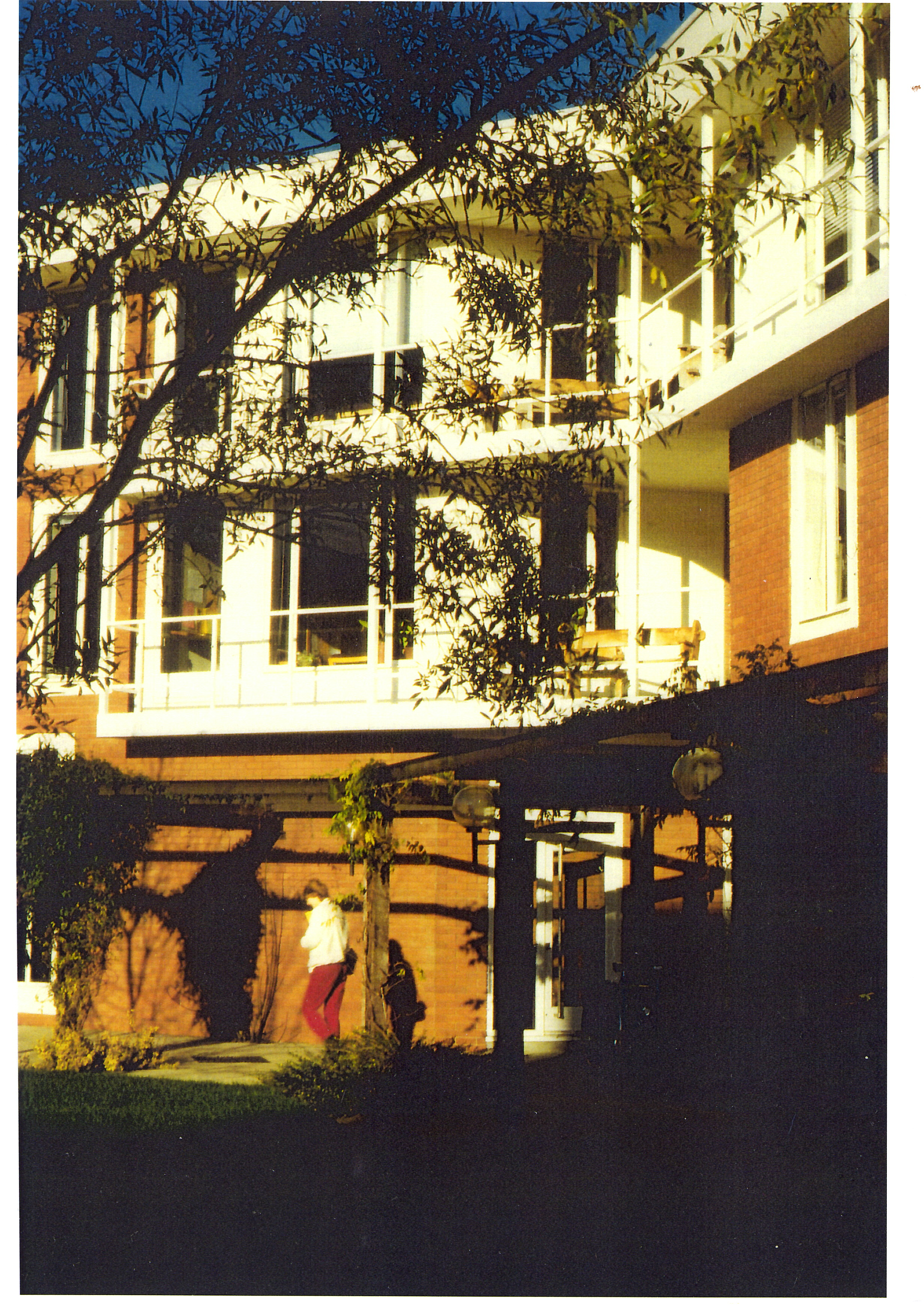 Warwick University, Social Sciences department, designed by Gabriel Epstein (1972)